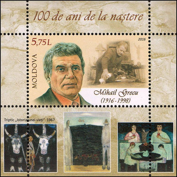 Famous and Eminent Persons II: Mihail Grecu - 100th Birth Anniversary